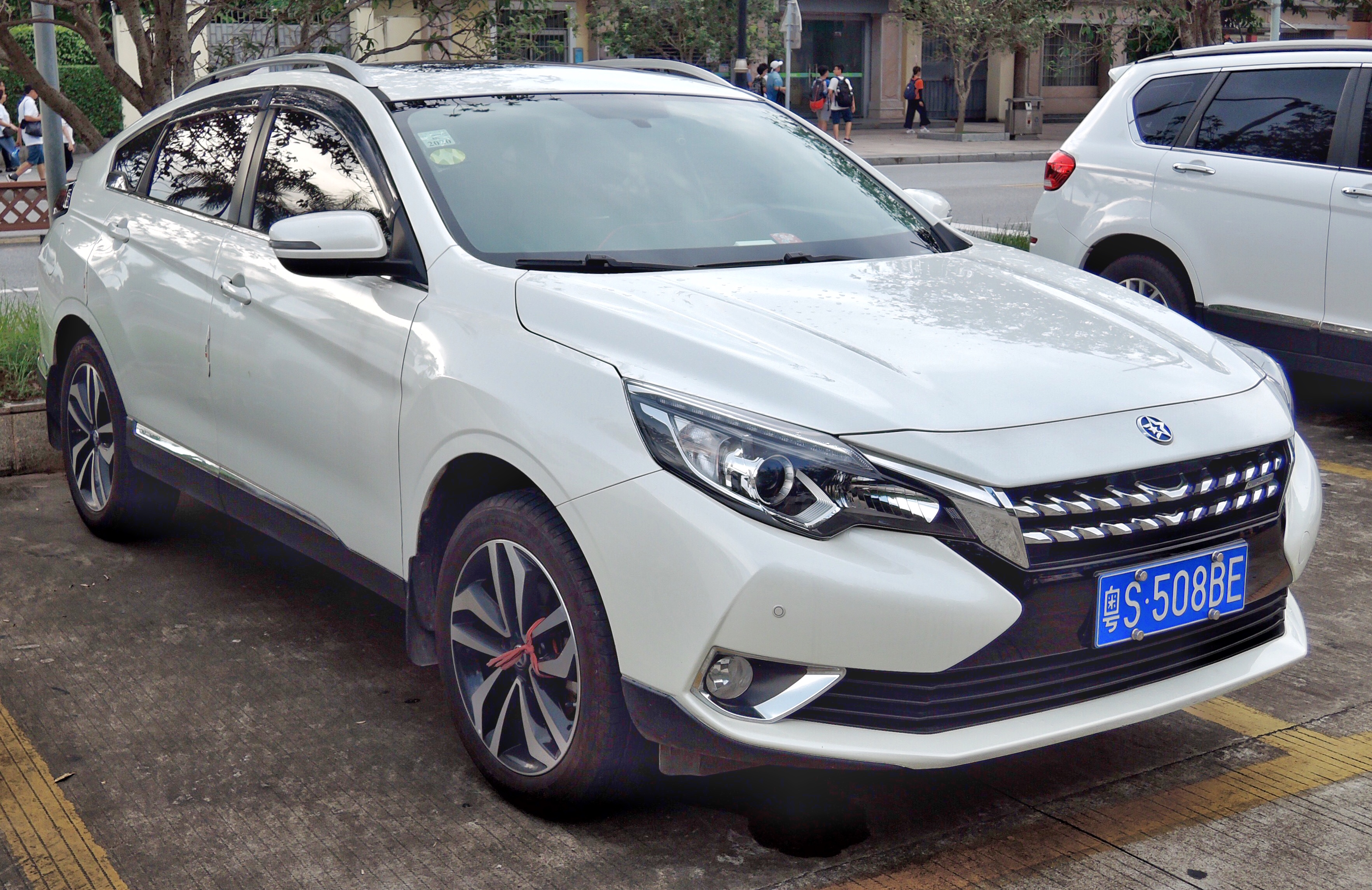 A 2017 Venucia T90 taken in Zhongshan, Guangdong province, China. 中文（中国大陆）: 一辆2017年的启辰T90，摄于中国广东省中山市。